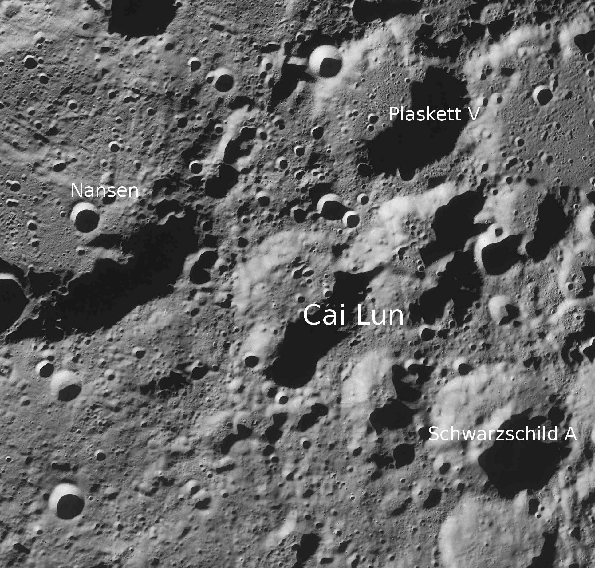 Moon crater Cai Lun and surroundings (north at top; detail of LRO - WAC north pole mosaic)